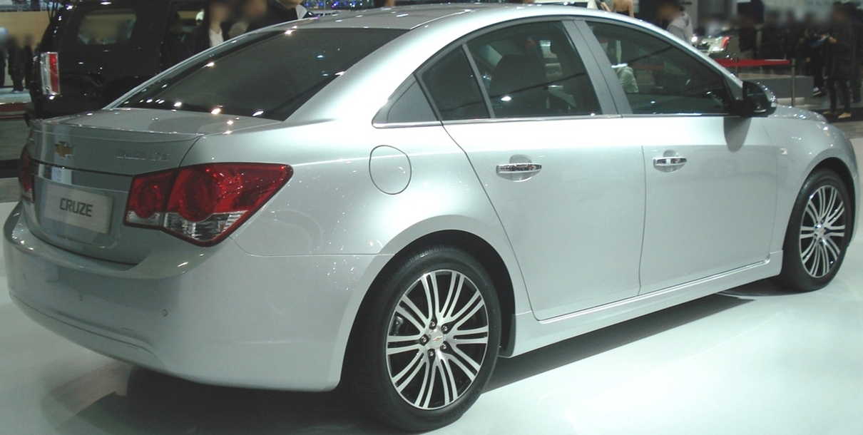 Chevrolet Cruze